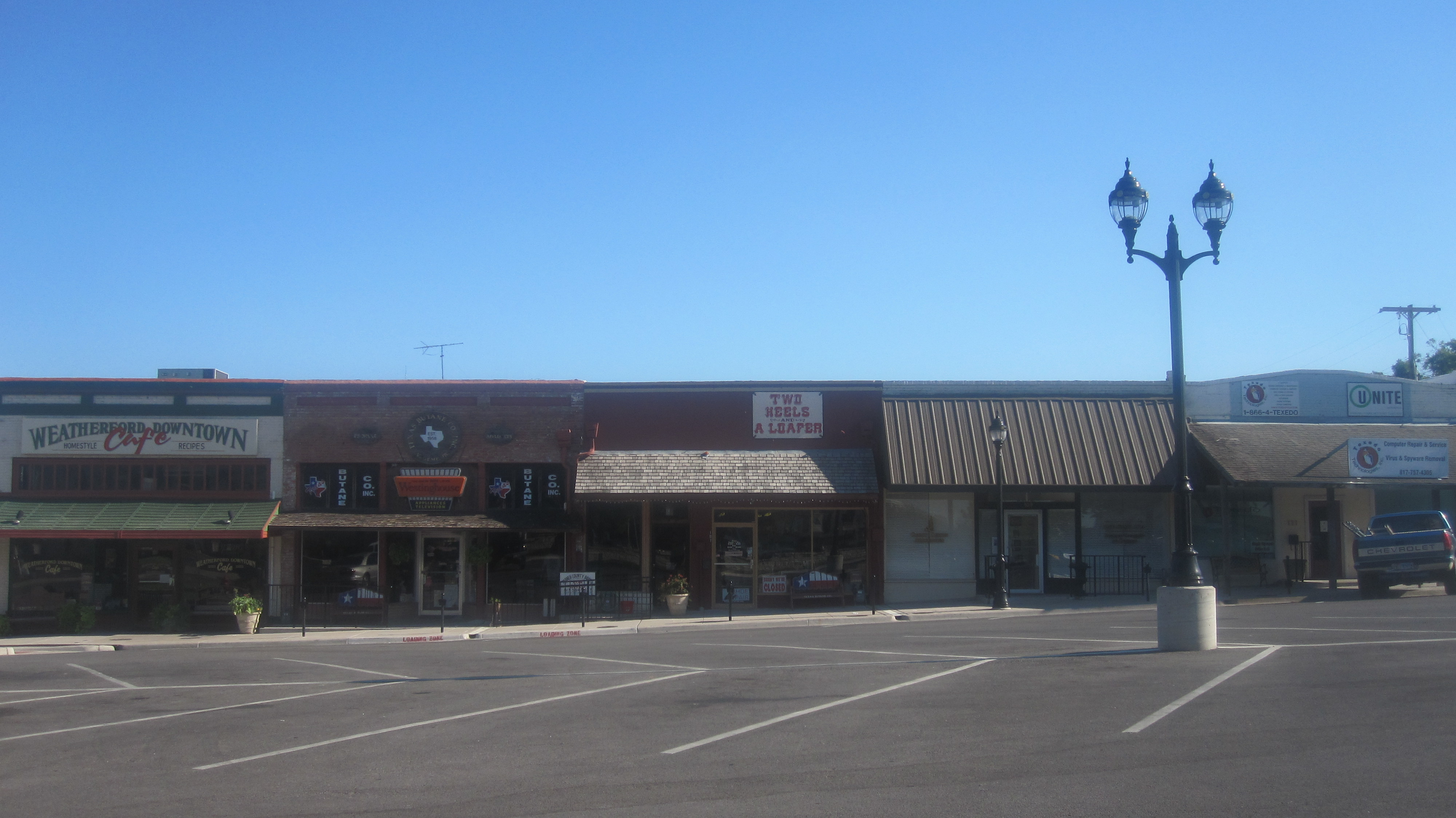 I took photo with Canon camera in Weatherford, TX.